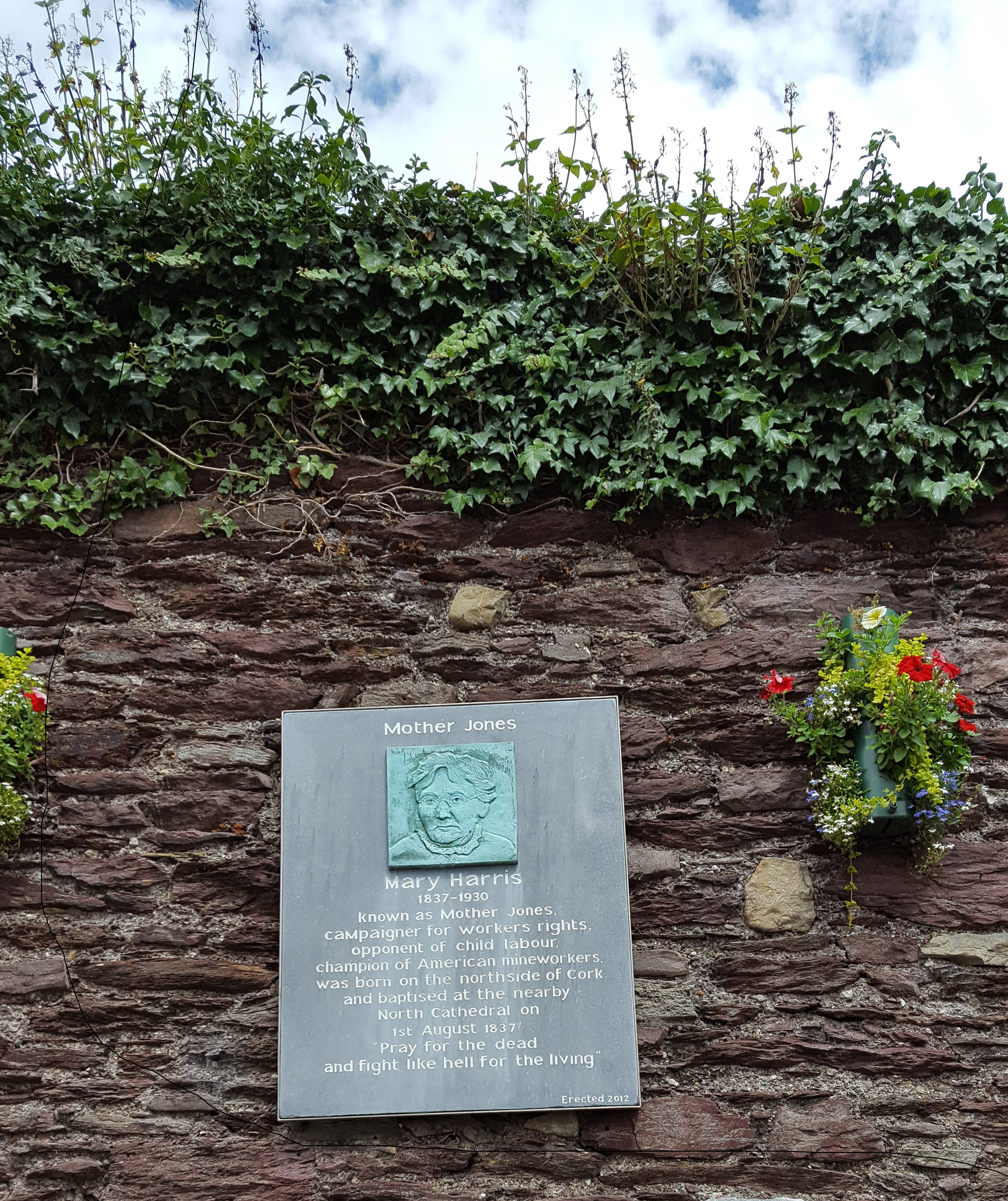 The Mother Jones Memorial in Cork Ireland.